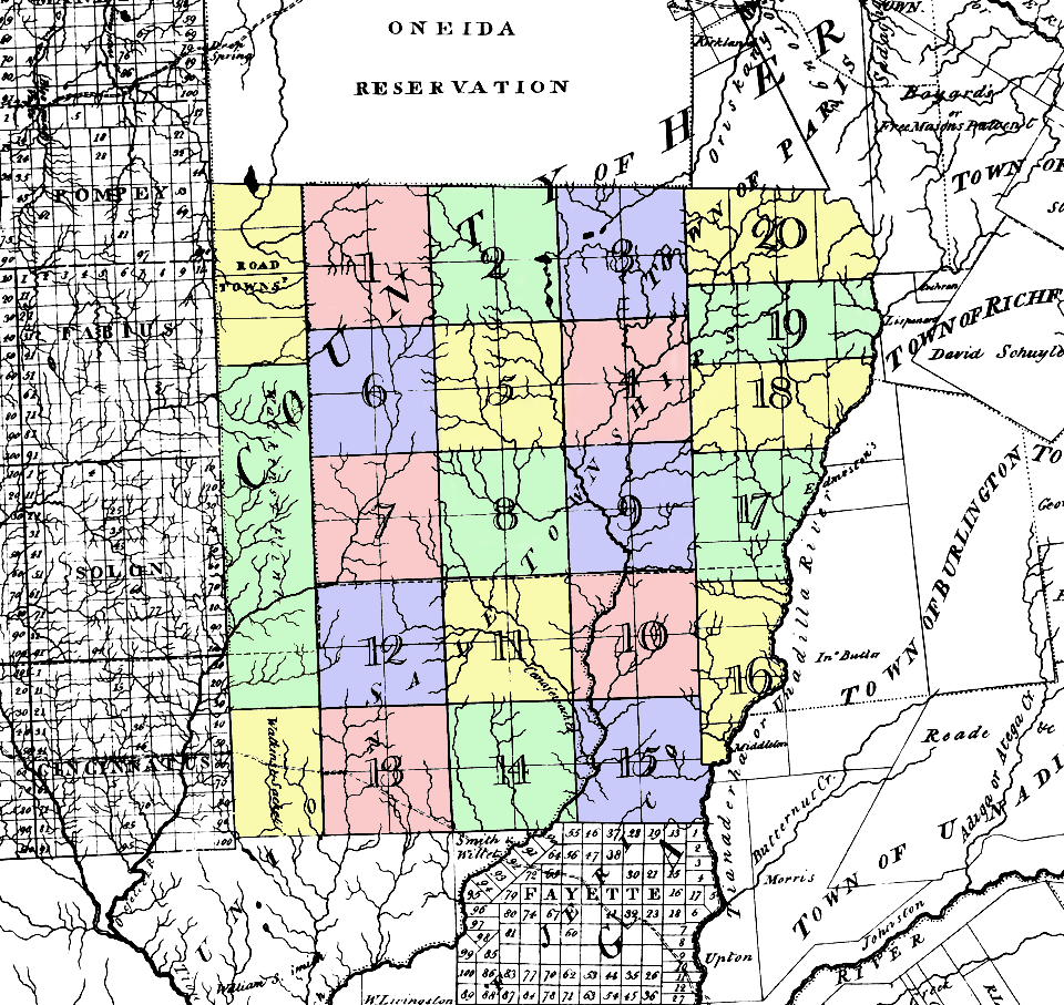 Map of the Twenty Townships (called Sale Townships on this map). Located in what was then Herkimer County, New York, about where northern Chenango and southern Madison Counties are today.